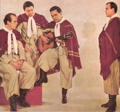 Los Tucu Tucu. Folk. Argentina.